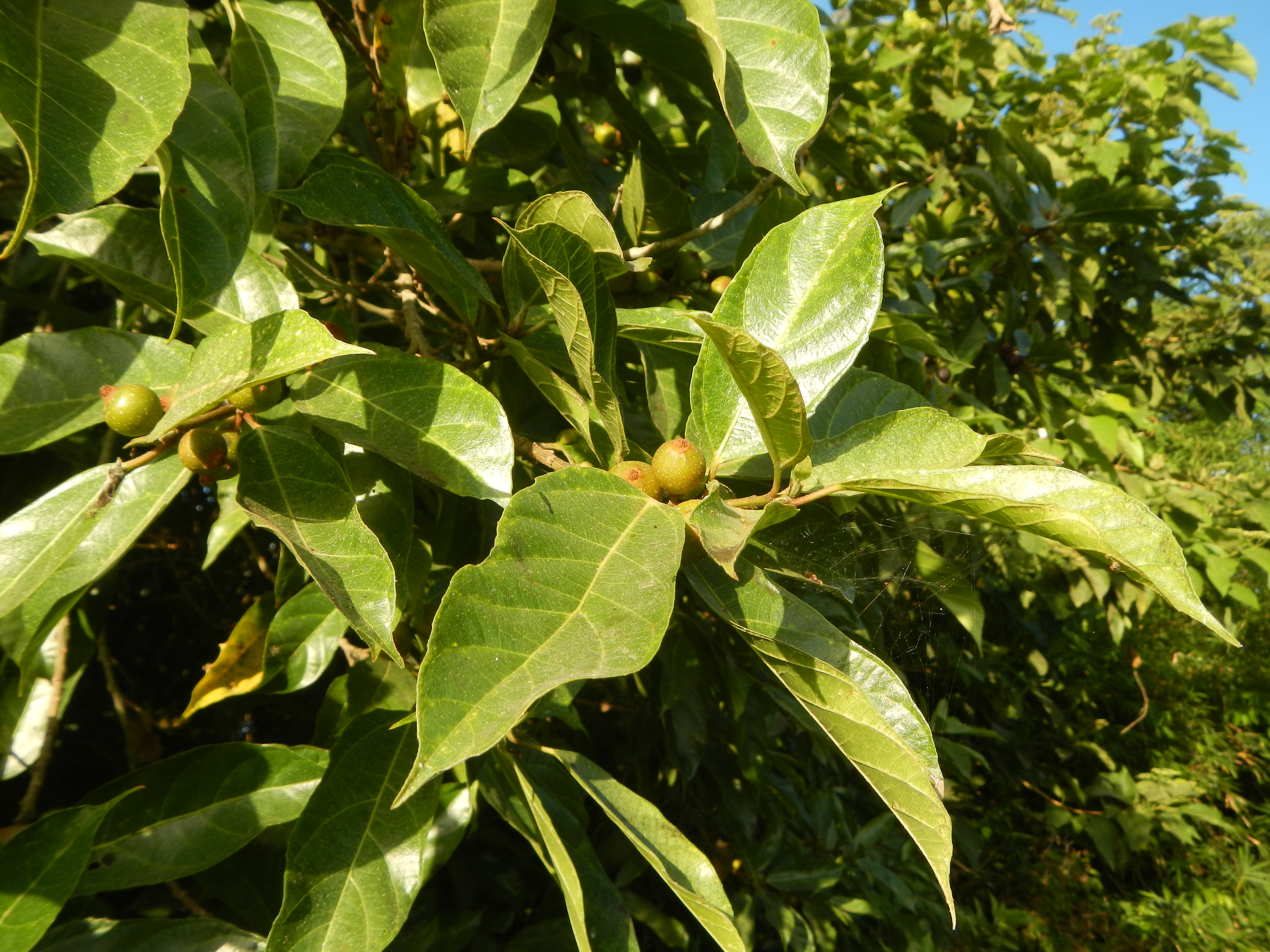 Ficus odorata (Blanco) Merr. and Ficus arenata Elmer Isis Pakiling Landscape of Vegetable plantations (Diliman I and Diliman II, San Rafael, Bulacan village) surrounded by the Maasim River (San Rafael-San Ildefonso, Bulacan) Philippine Mahogany, Rice straws hays in Paddy, Tomato, Vegetable fields, Okra, Capsicum annuum var. longum in the Philippines Siling Haba, Vigna unguiculata subsp. sesquipedalis Sitaw, Ampalaya Charantia, Syzygium samarangense Macopa and Isis Pakiling Ficus arenata Elmer, Ficus odorata (Blanco) Merr. Trees, creeks, (in Barangays Diliman I, and Diliman II, San Rafael, Bulacan Province surrounded by Paddy fields of Diliman I and Diliman II, San Rafael, Bulacan from along the Gulod, Maguinao-Diliman I-Diliman II, San Rafael, Bulacan Farm to Market Road).